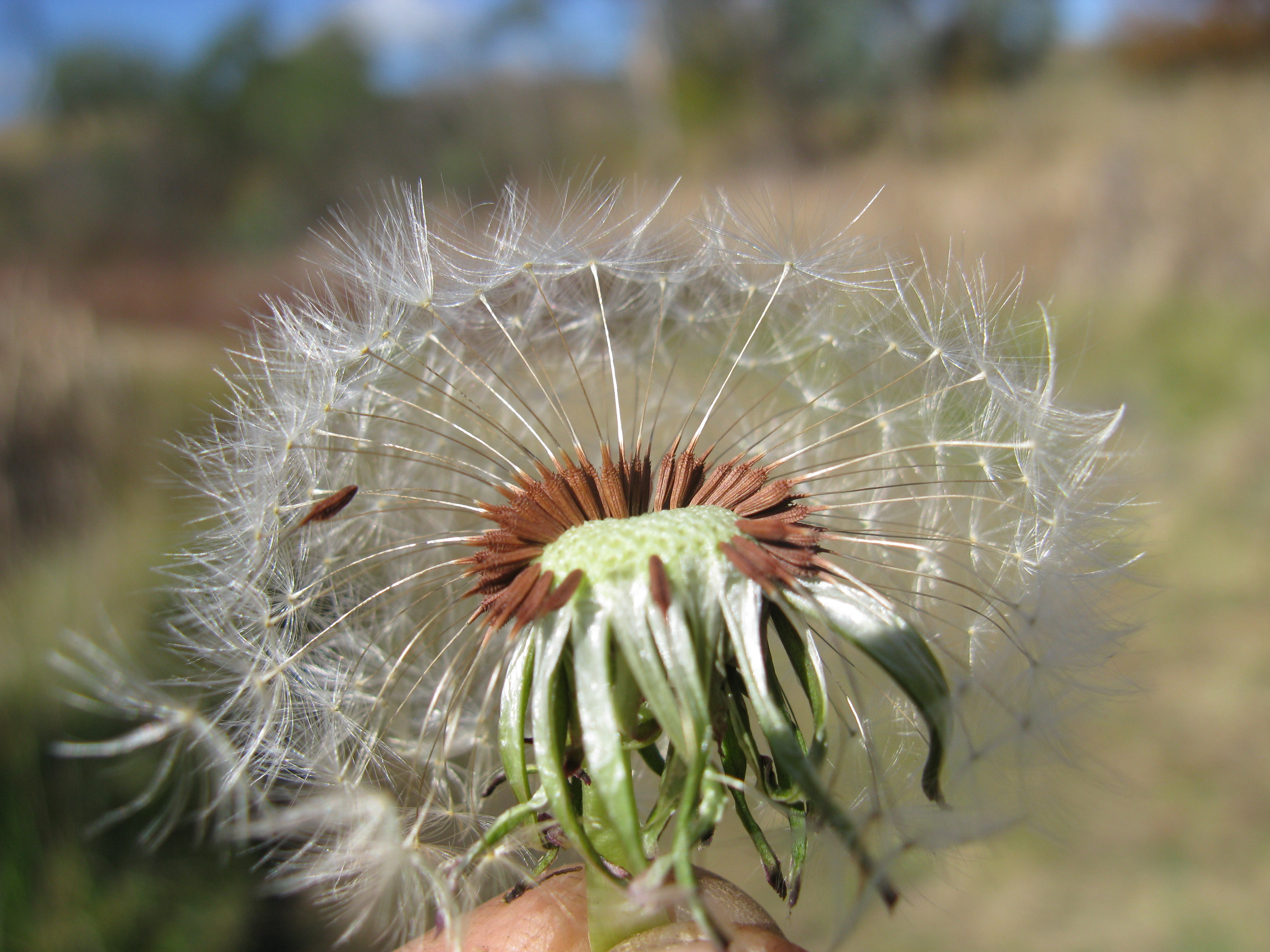 Introduced, warm-season to yearlong-green, perennial herb; to 35 cm tall and with a large taproot. Leaves are soft, hairless, deeply toothed and form a rosette at the base of the plant. Flowerheads consist of a solitary head at the tip of an unbranched, hollow stem; florets are yellow and ligulate. Fruit are long-beaked with a white-cream pappus. Flowering occurs over most of the year, but mostly spring to autumn. A native of Europe, it is found on disturbed, fertile, moist soils; most common in lawns, wastelands and heavily grazed pastures. It has poor tolerance of heavy clays and saline or acid soils. Produces palatable and nutritious feed; often with high crude protein and magnesium levels. Its leaves are normally prostrate and not readily available to cattle. However, managing grazing to increase pasture height (e.g. rotational grazing), forces dandelion leaves to grow more vertically. Roots are used in herbal medicine and as a coffee substitute.